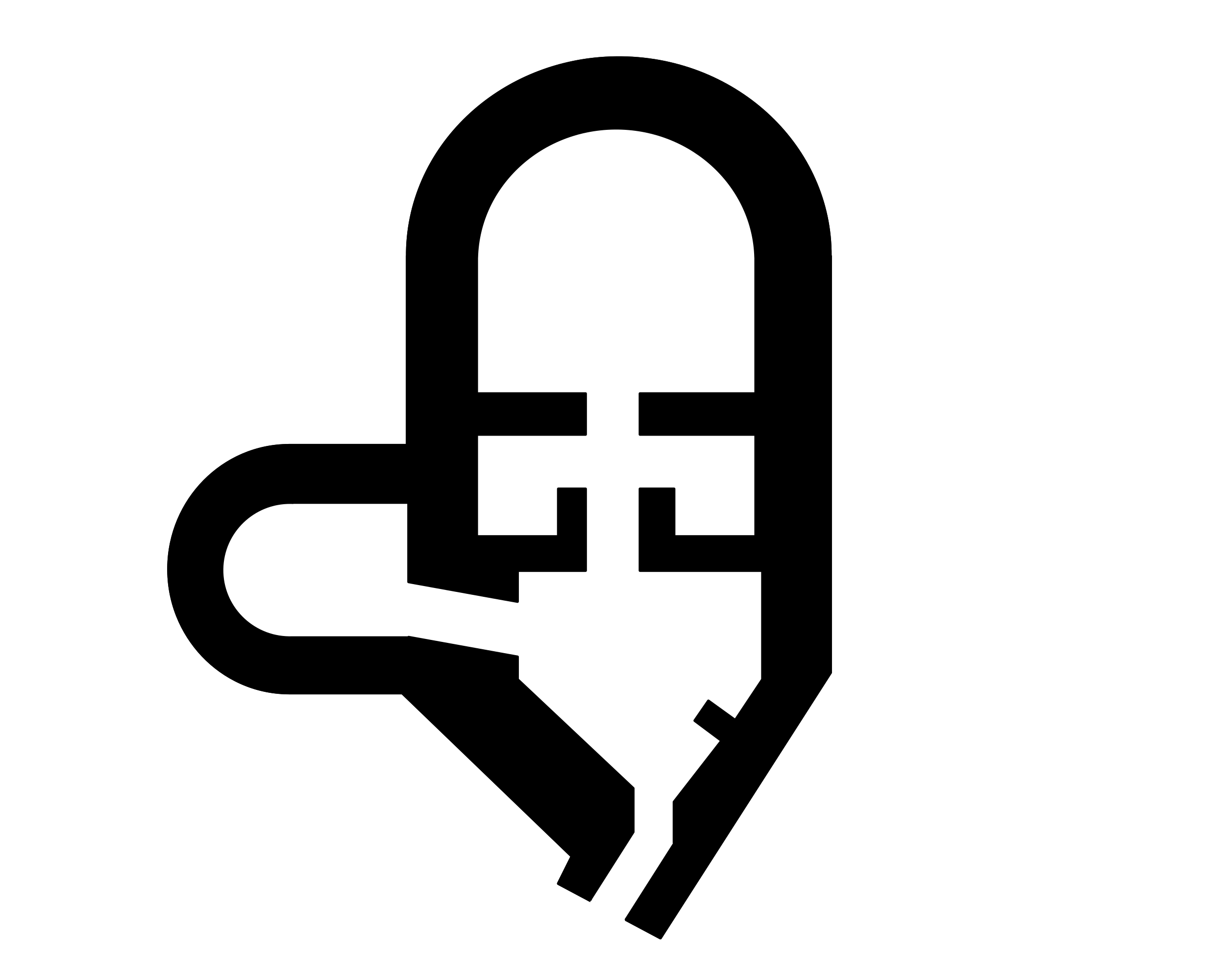 Black and white version of Gravesend Blockhouse; simplified by hchc2009